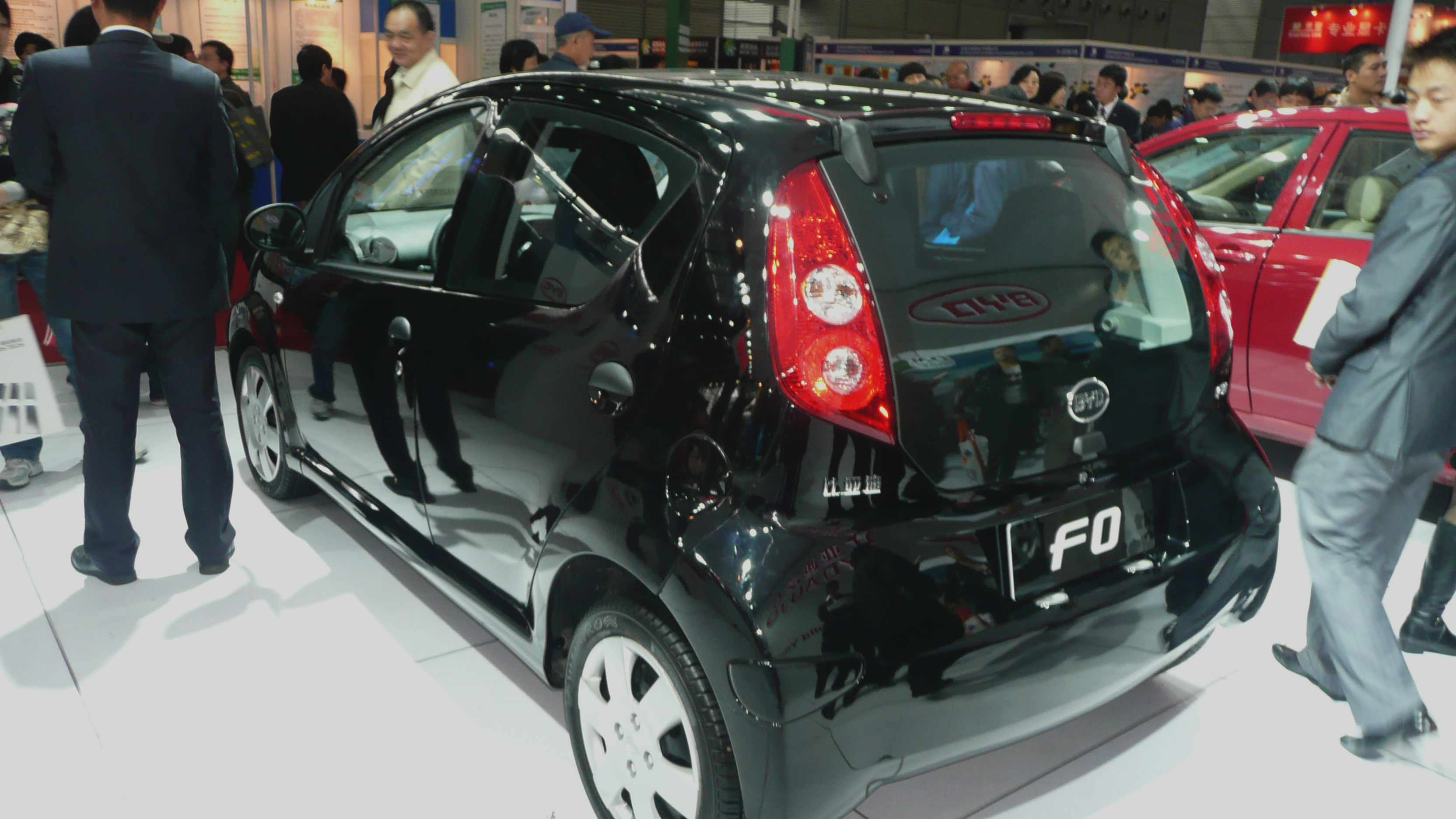 BYD's f0 at the Shenzhen High-Tech Fair, November 2009